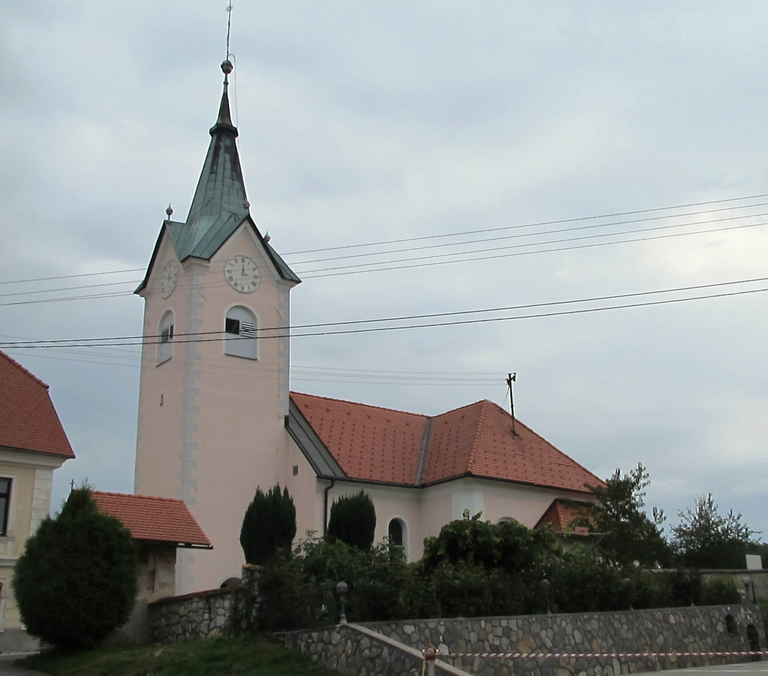 Saint Nicholas' Church in Mali Lipoglav, City Municipality of Ljubljana, Slovenia